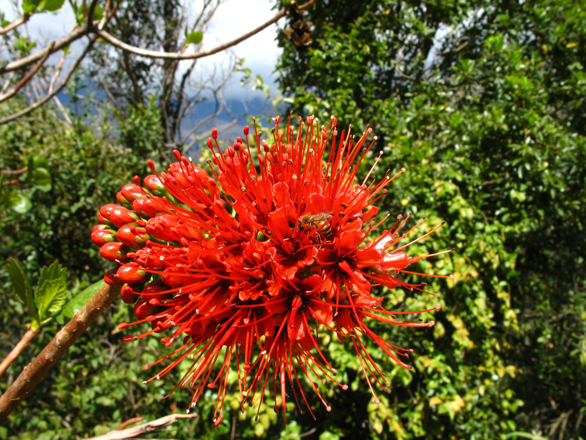 Greyia sutherlandii, taken in Drakensberg, KwaZulu Natal, South Africa.